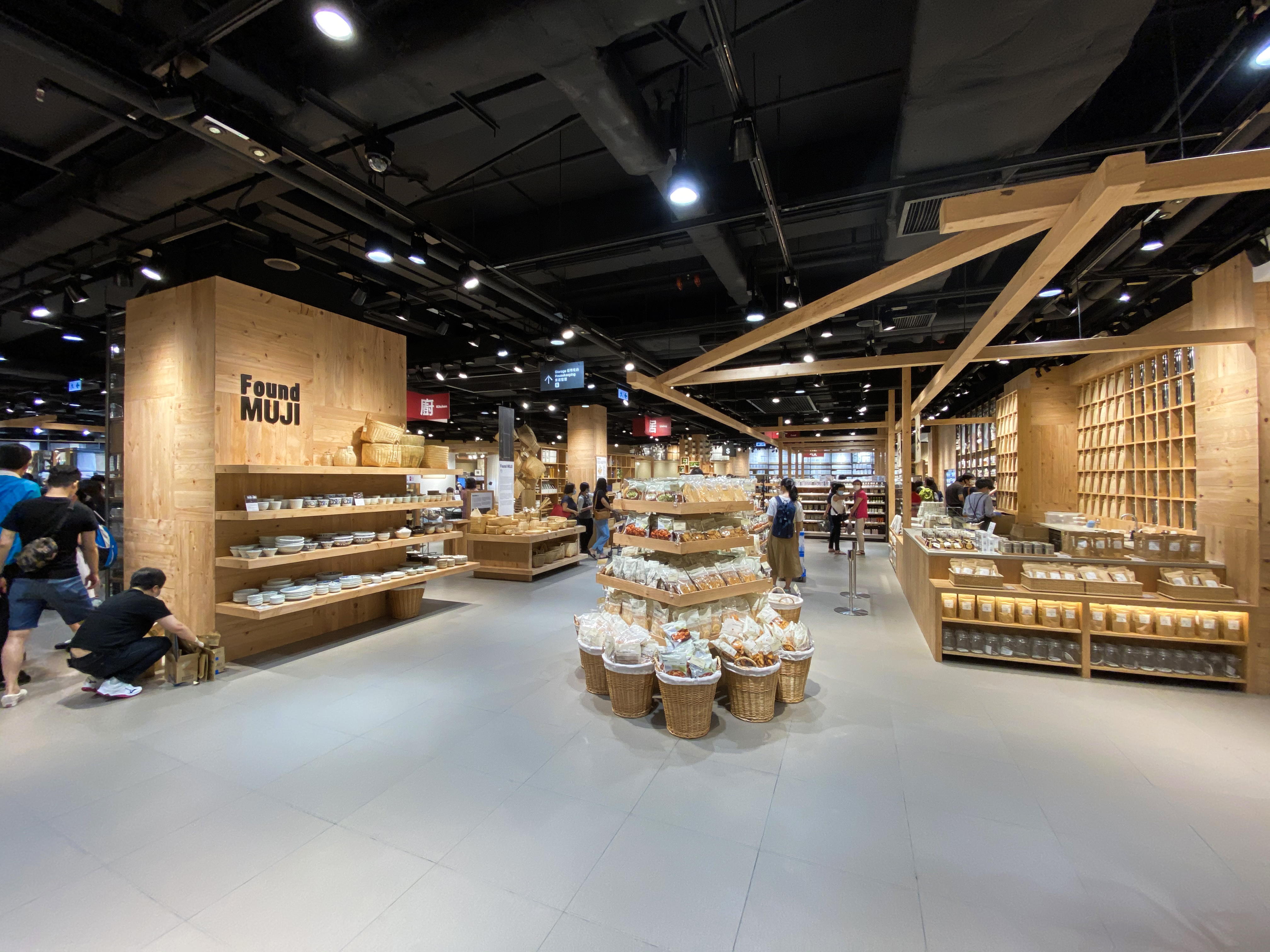 Telford Plaza Phase 2 MUJI Interior